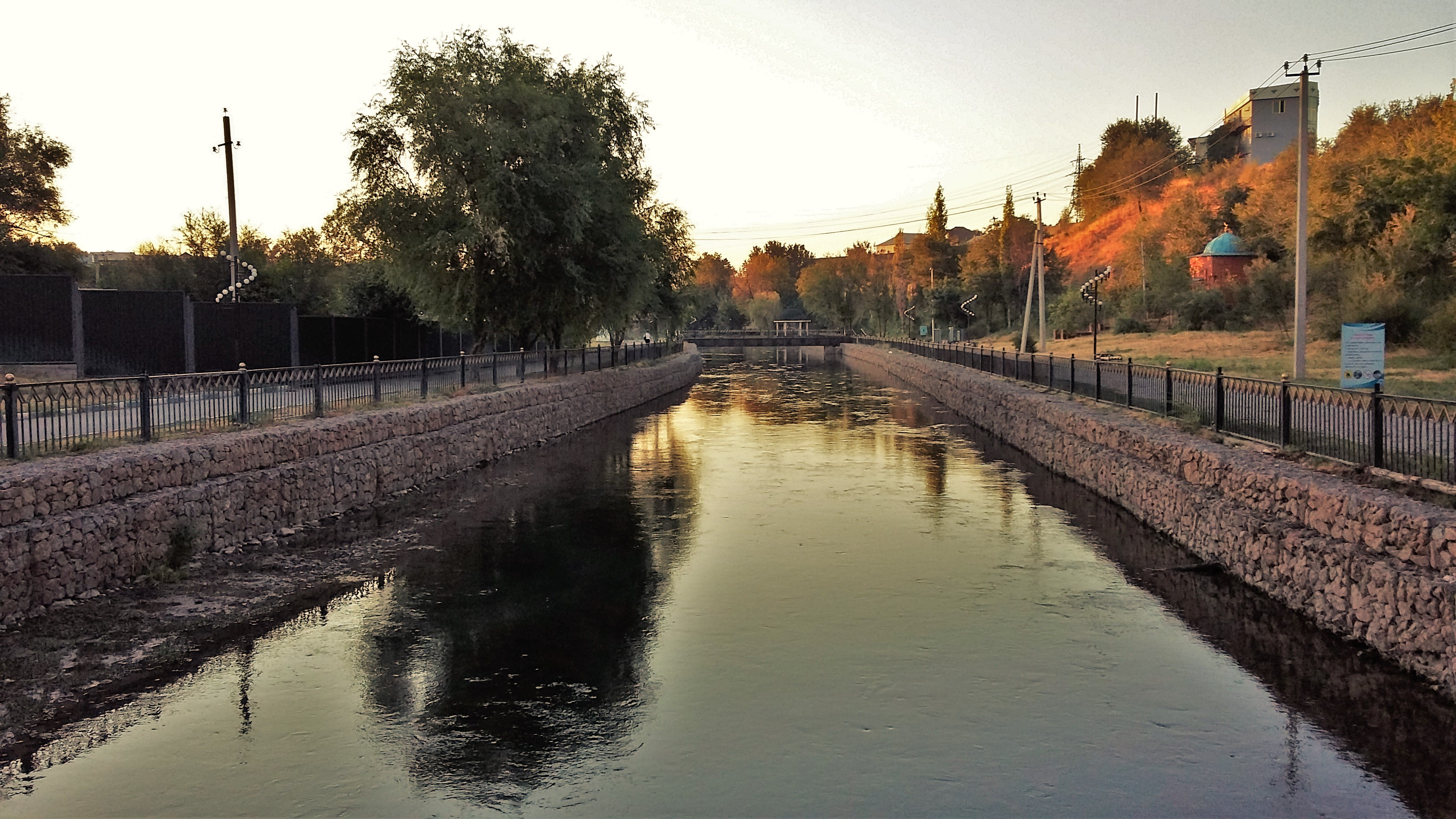 Koshkar Ata river in Shymkent